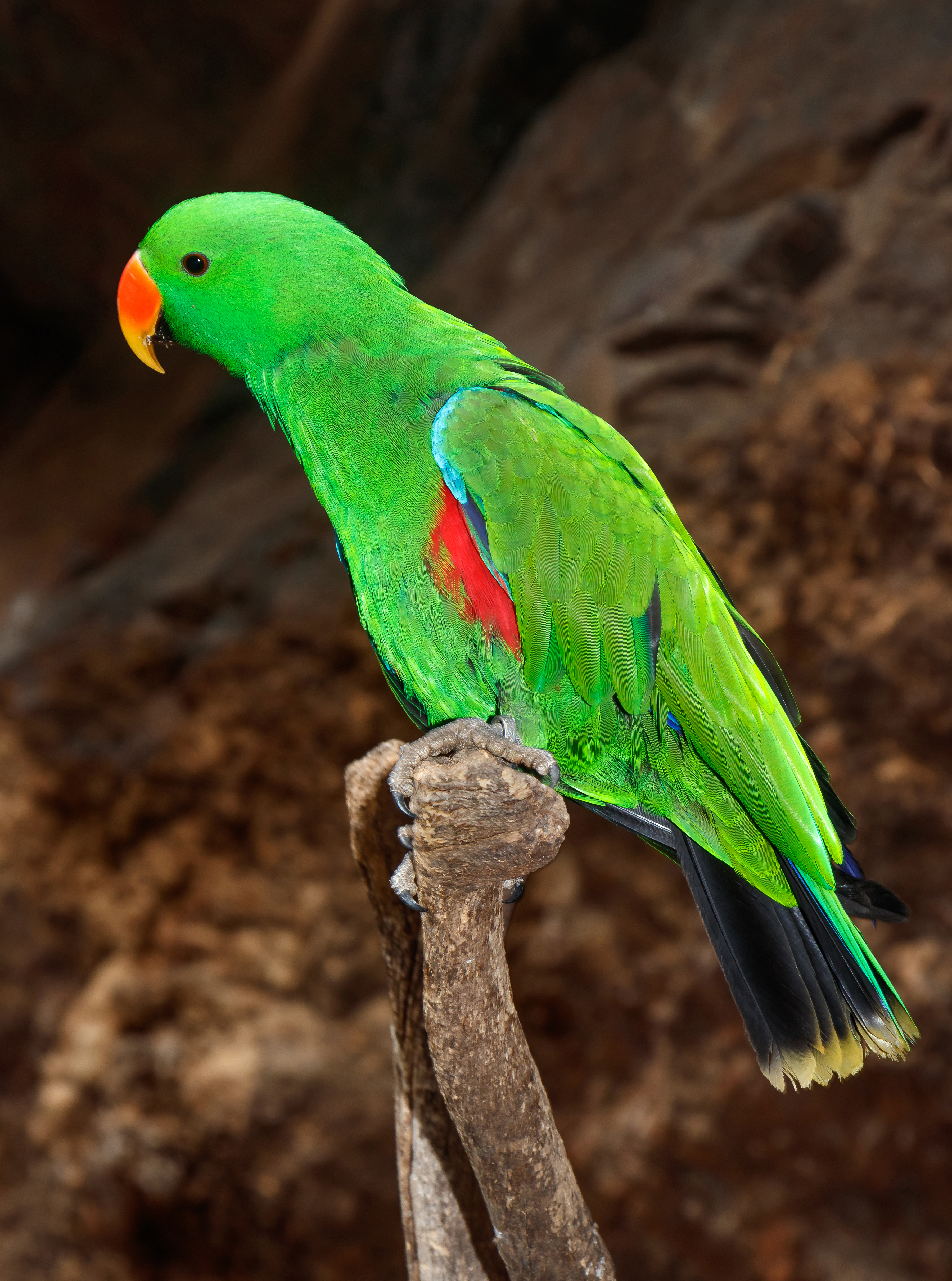 Eclectus roratus (Müller, 1776), Eclectus parrot, male; Maroparque, Breña Alta, La Palma, Canary Islands, Spain.